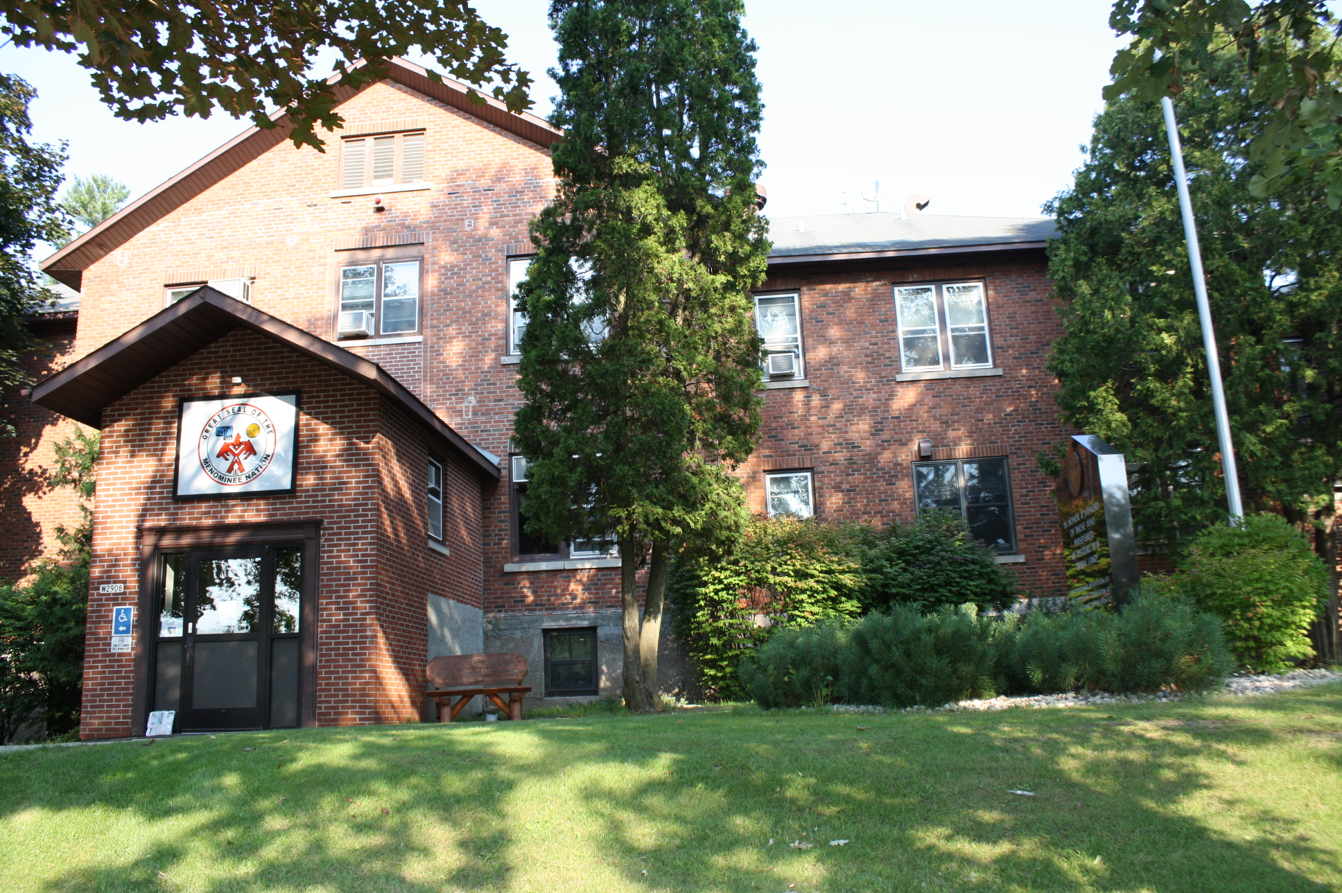 Looking at the Menominee Village/Tribal hall in Keshena, Wisconsin.